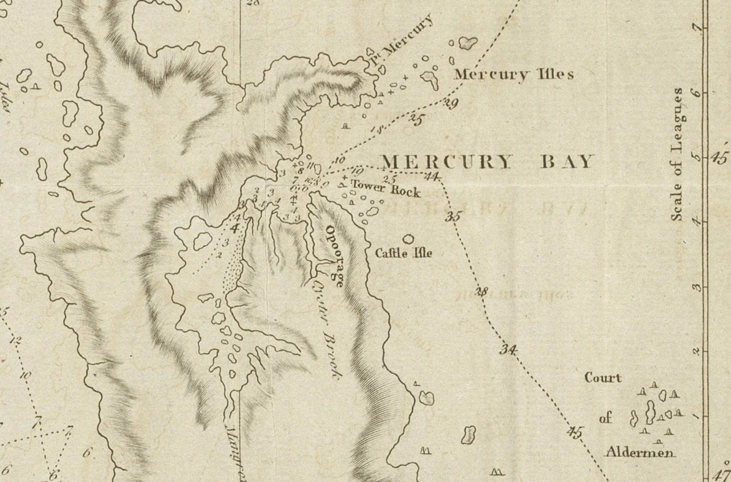 Fragement of a Chart of Mercury Bay. Gives bathymetric soundings, relief with hachures, track of 'Endeavour' and rocks. From: J. Hawksworth. 'An account of the voyages undertaken...discoveries in the Southern hemisphere...' London: W. Strahan & T. Cadell, 1773.